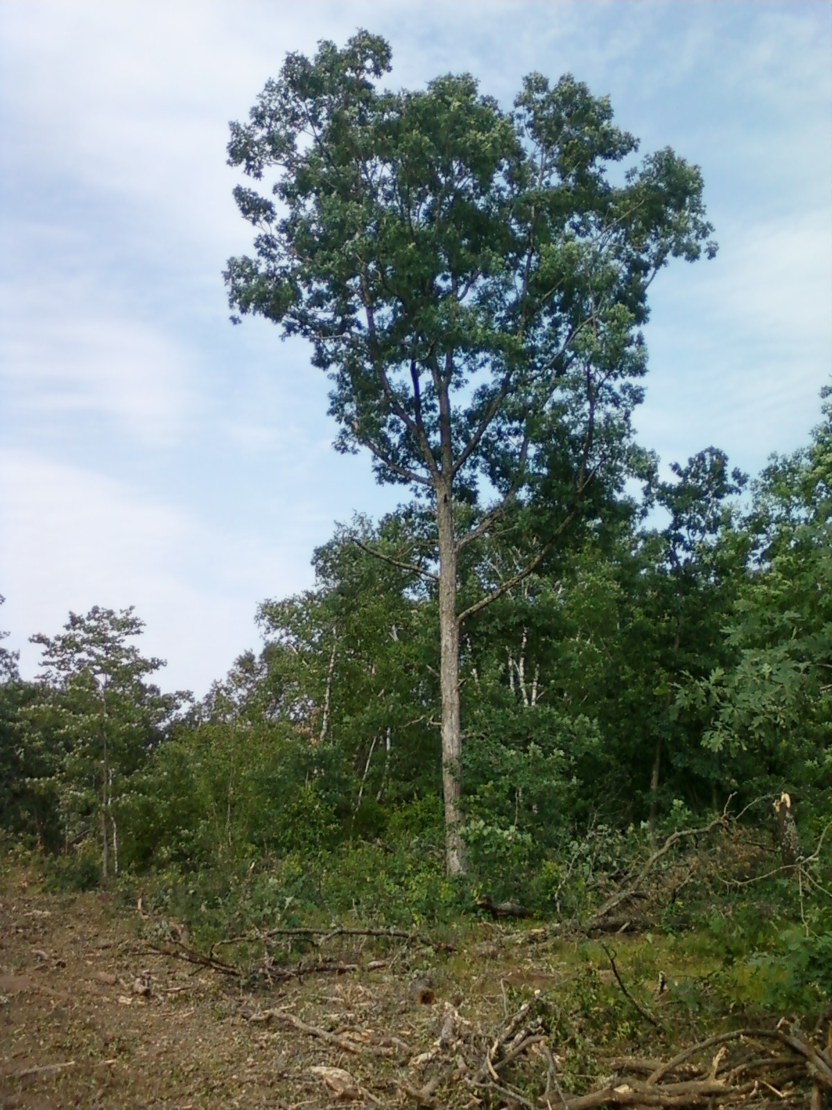 Healthy white oak (Q. alba) after storm damage and oak wilt cleanup autumn 2012 Chisago County Minnesota